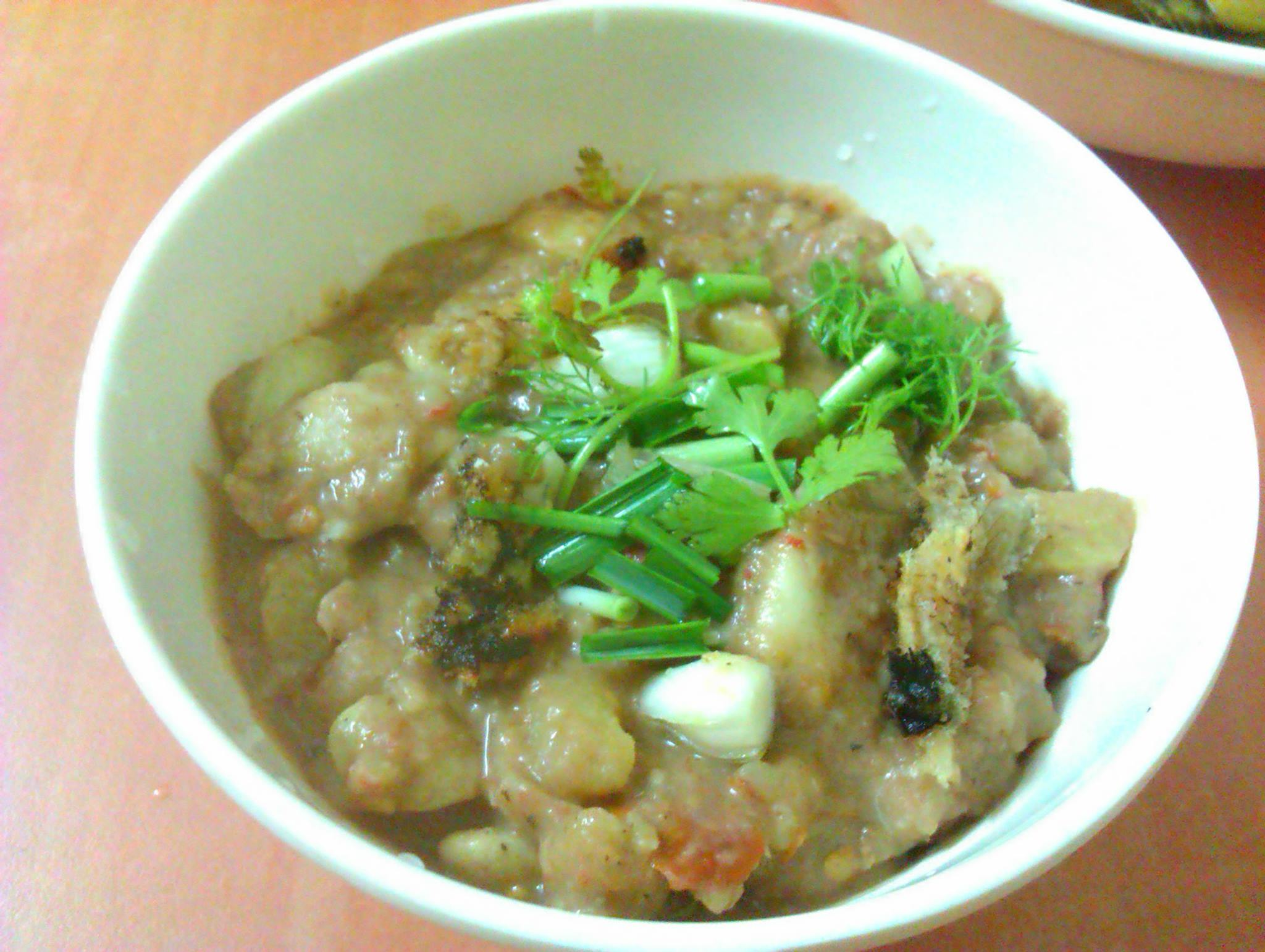 a typical eromba made by stink bean